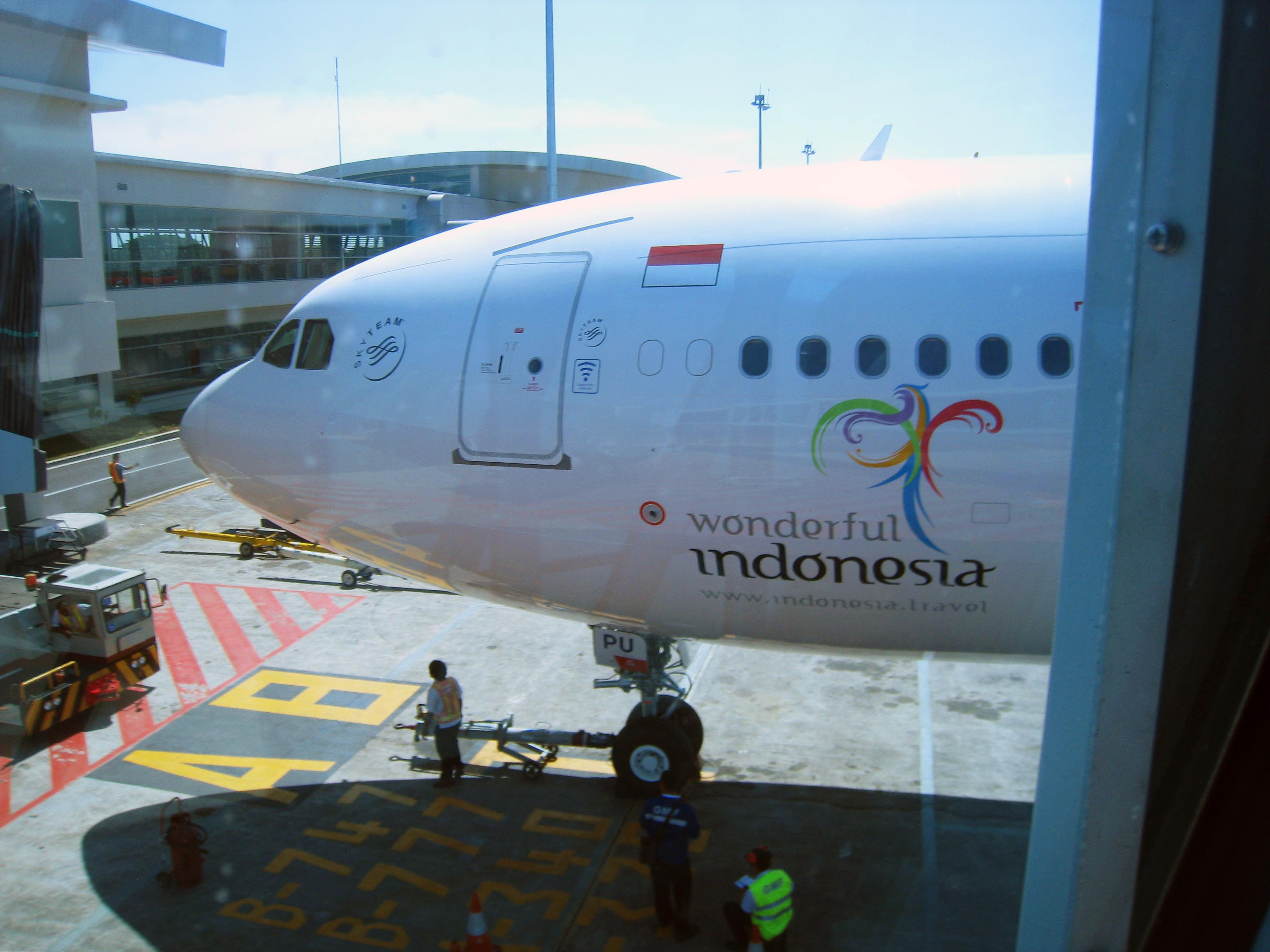 Wonderful Indonesia logo on Garuda Indonesia airplane at Juanda International Airport, Surabaya, Indonesia.